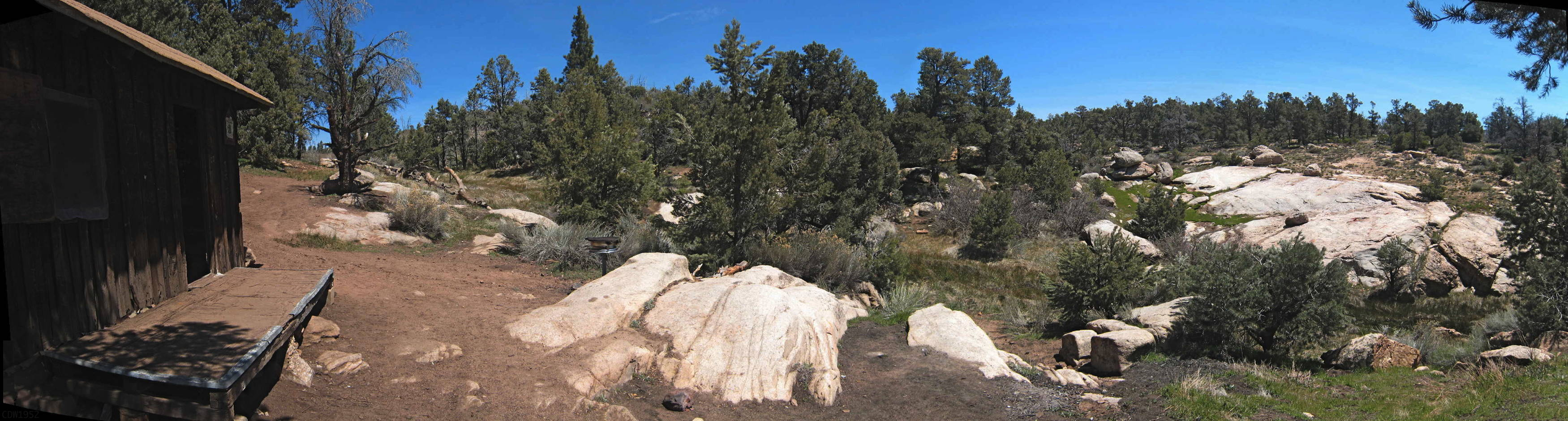 This is a view panned from West to North in front McIver's Cabin.